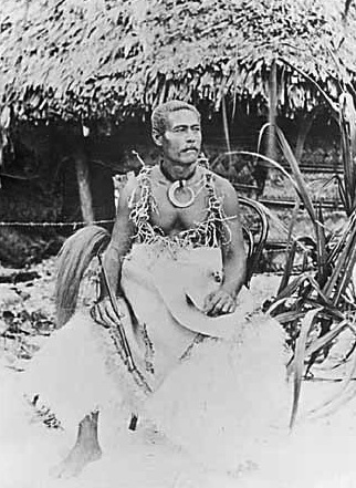 Tui Manu'a Elisala the last sovereign of Manu'a Islands in American Samoa